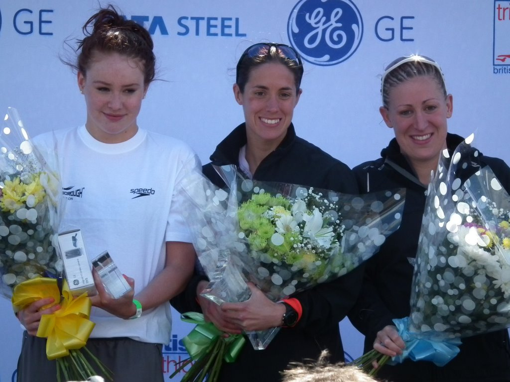 Lucy Hall (2nd place), Helen Jenkins (winner) and Jodie Stimpson (3rd place), on the podium after the 2011 Strathclyde Park Triathlon